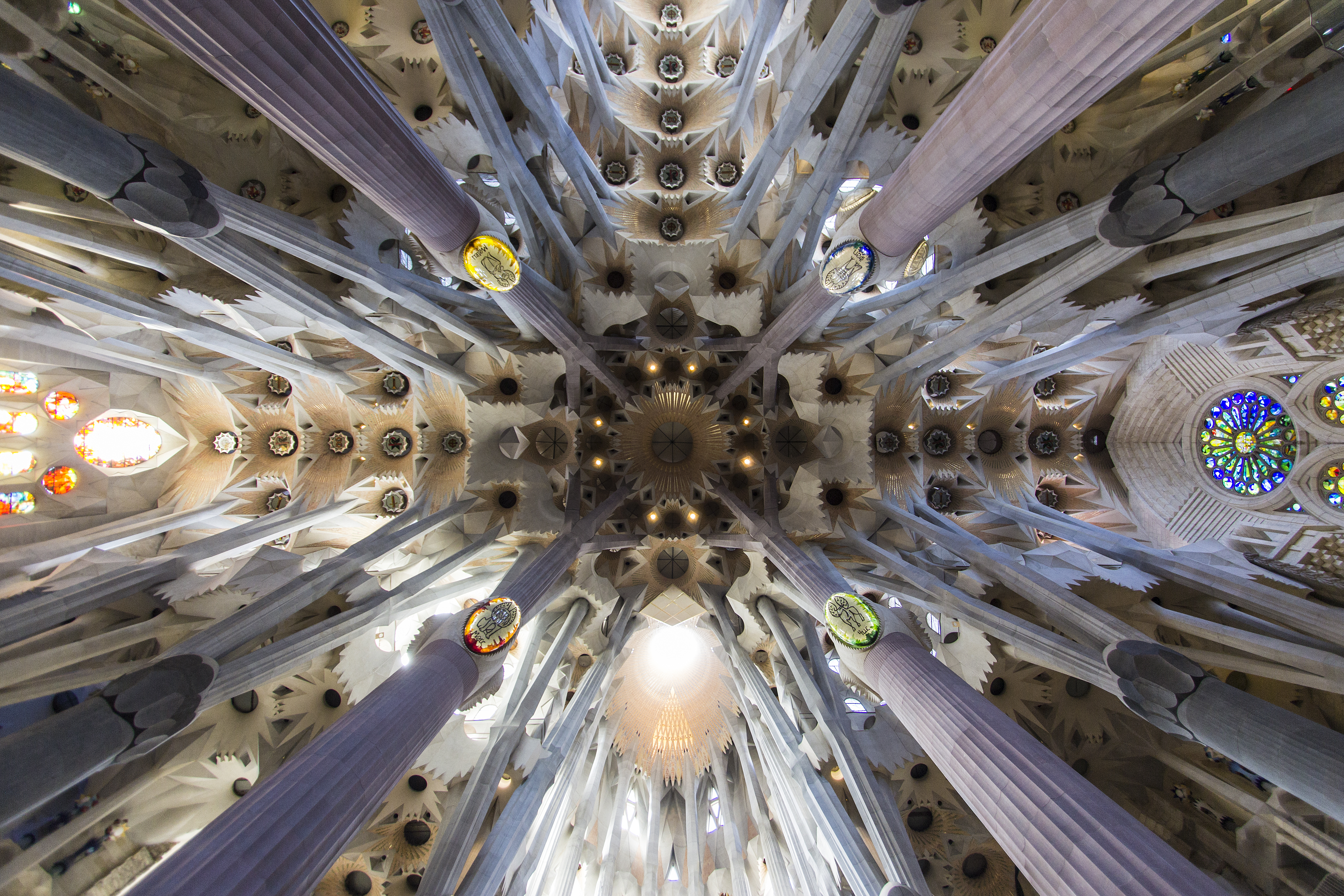 Wide-angle shot of the central roof at the Sagrada Família in Barcelona